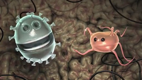 Screen-cap from the IRrelevant Astronomy episode "Ask an Astronomy Brain Parasite"